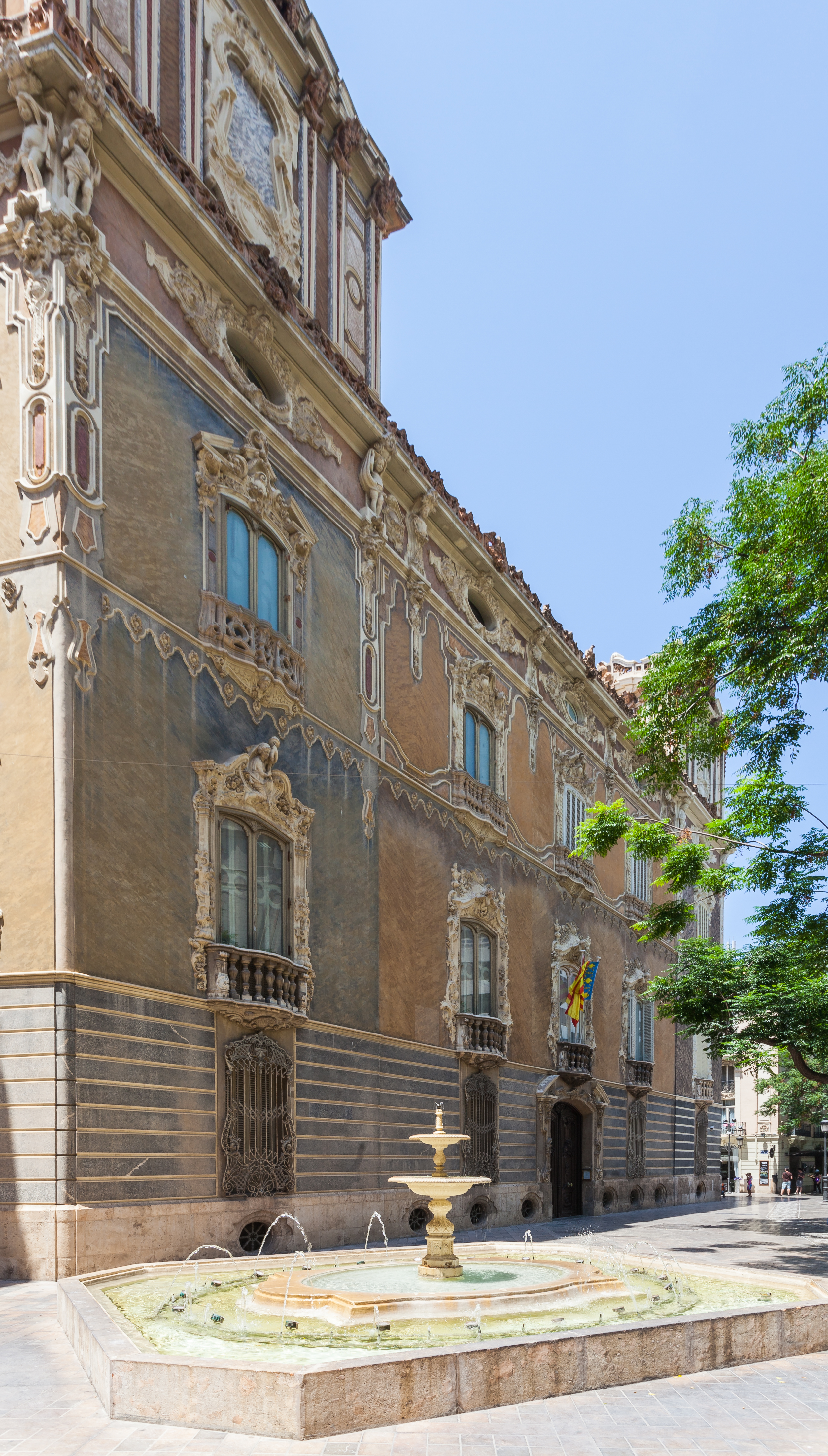 National Museum of Pottery, Valencia, Spain